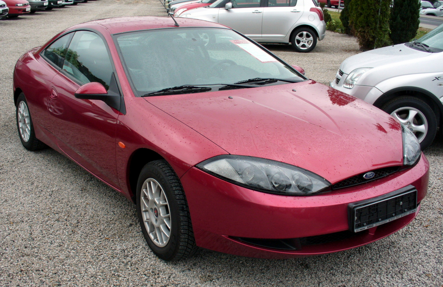 Ford Cougar